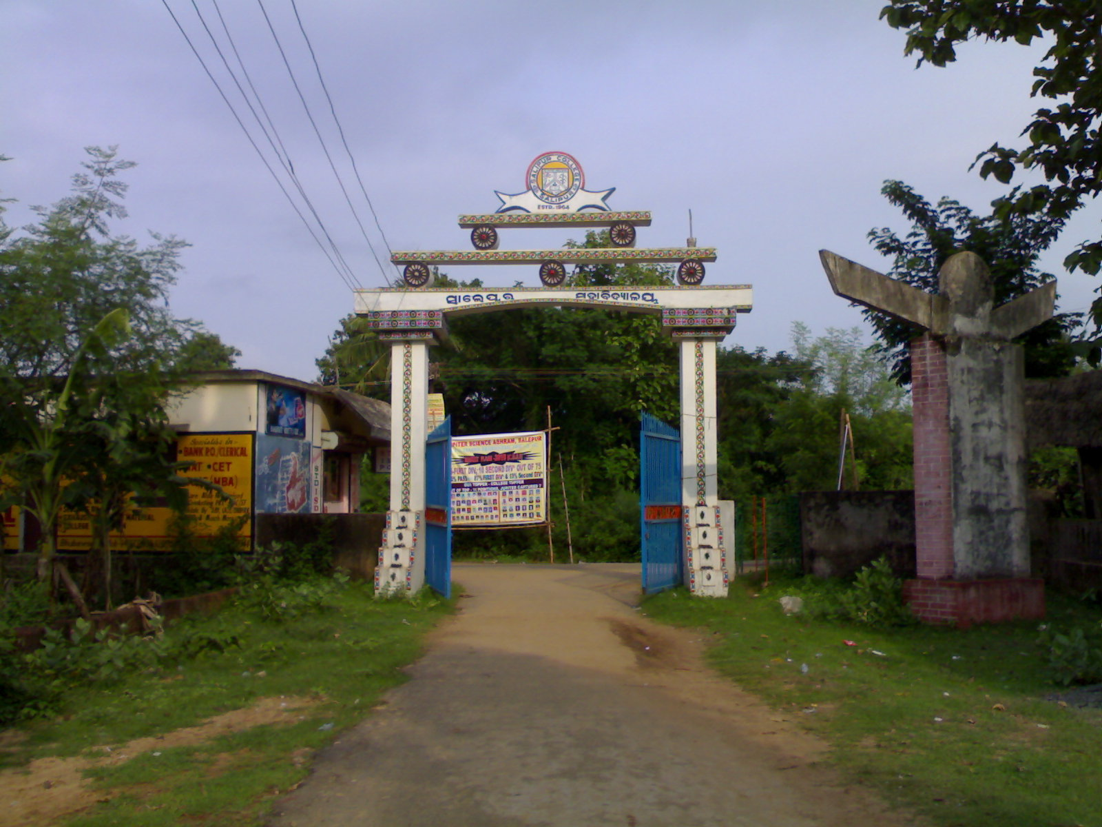 salipur clg get photo taken from insaide